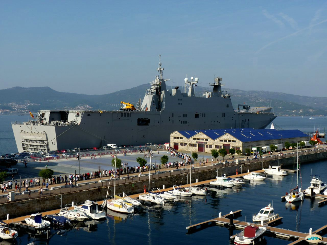 Juan Carlos I (L-61).